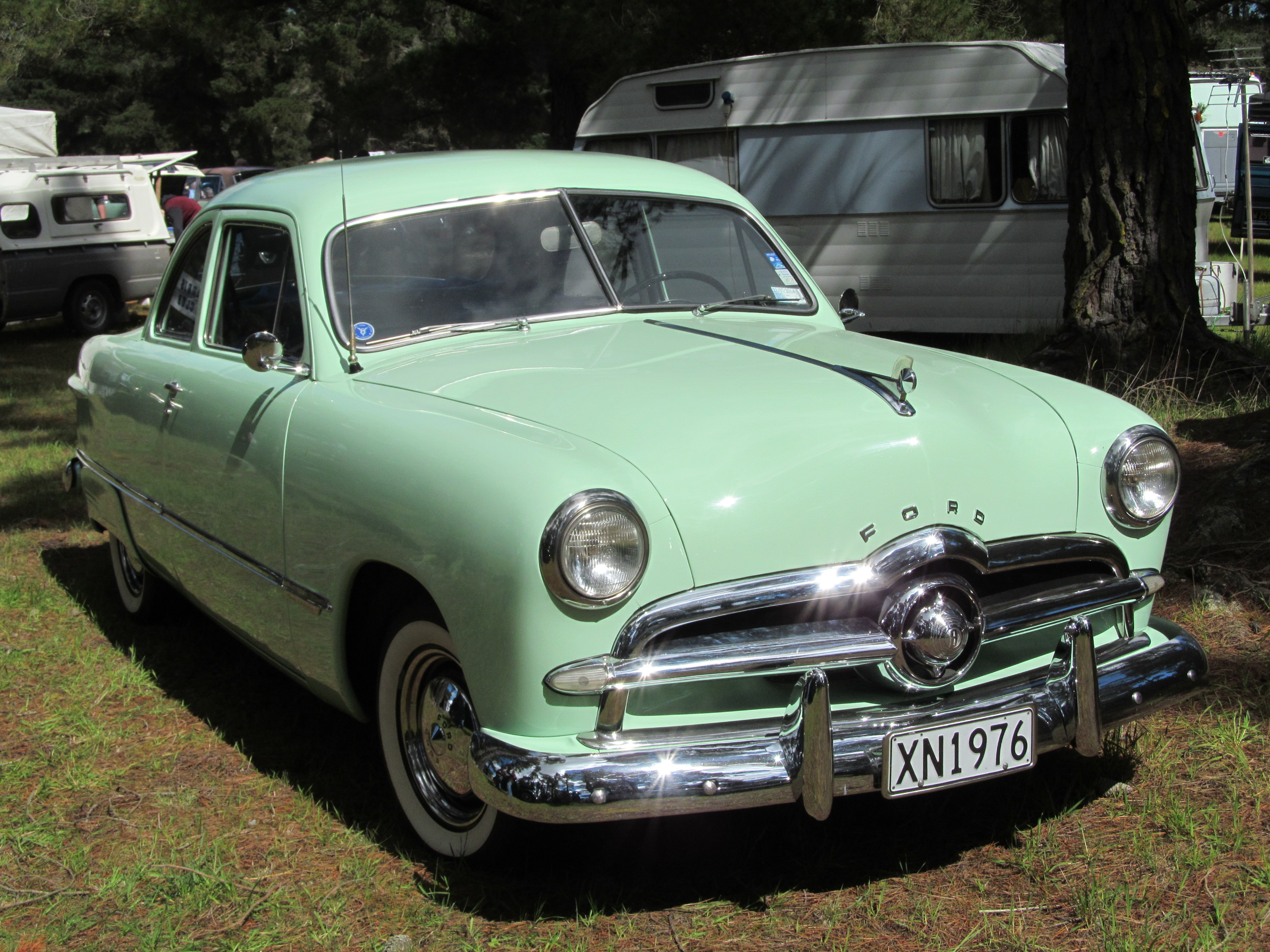 1949 Ford Custom Club Coupe